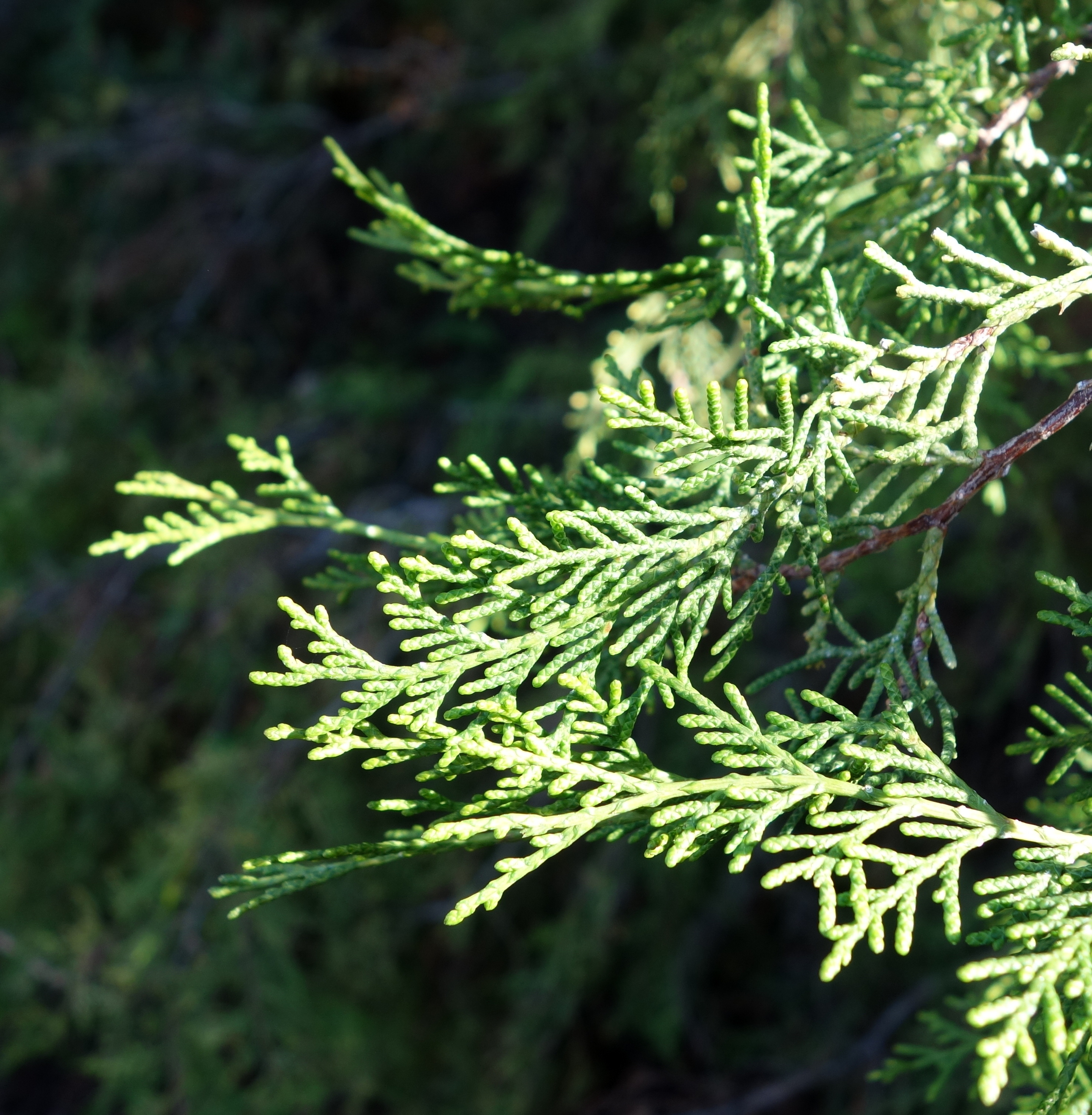 Botanical specimen in Quarryhill Botanical Garden, Glen Ellen, California, USA.